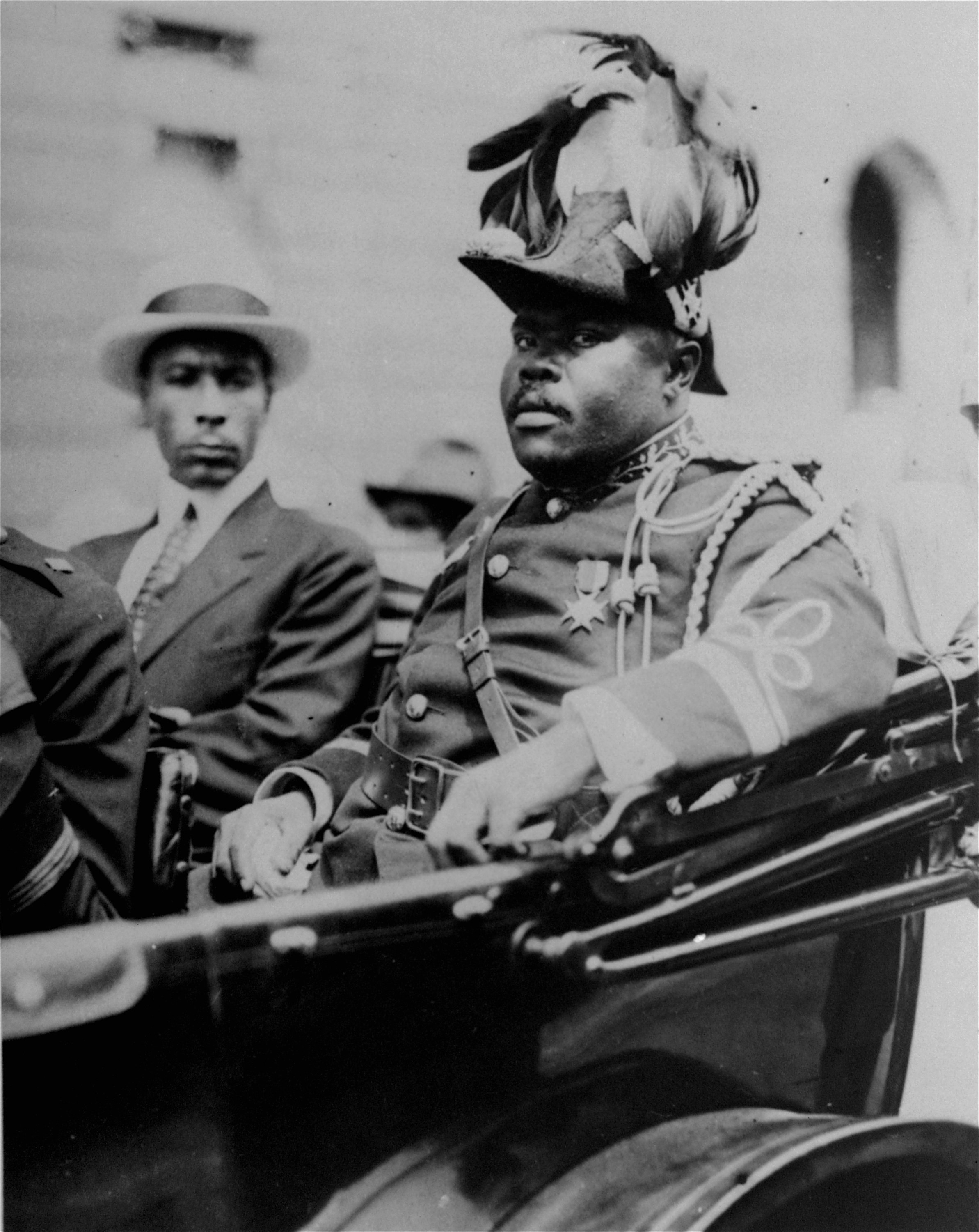 FILE - In this Aug. 1922 file photo, Marcus Garvey is shown in a military uniform as the"Provisional President of Africa"during a parade on the opening day of the annual Convention of the Negro Peoples of the World at Lenox Avenue in Harlem, New York City. A century ago, Garvey helped spark movements from African nationalist independence to American civil rights to self-sufficiency in black commerce. Jamaican students in every grade from kindergarten through high school have began studying the teachings of the 1920-era black nationalist leader in a new mandatory civics program in schools across this predominantly black country of 2.8 million people. (AP Photo/File)